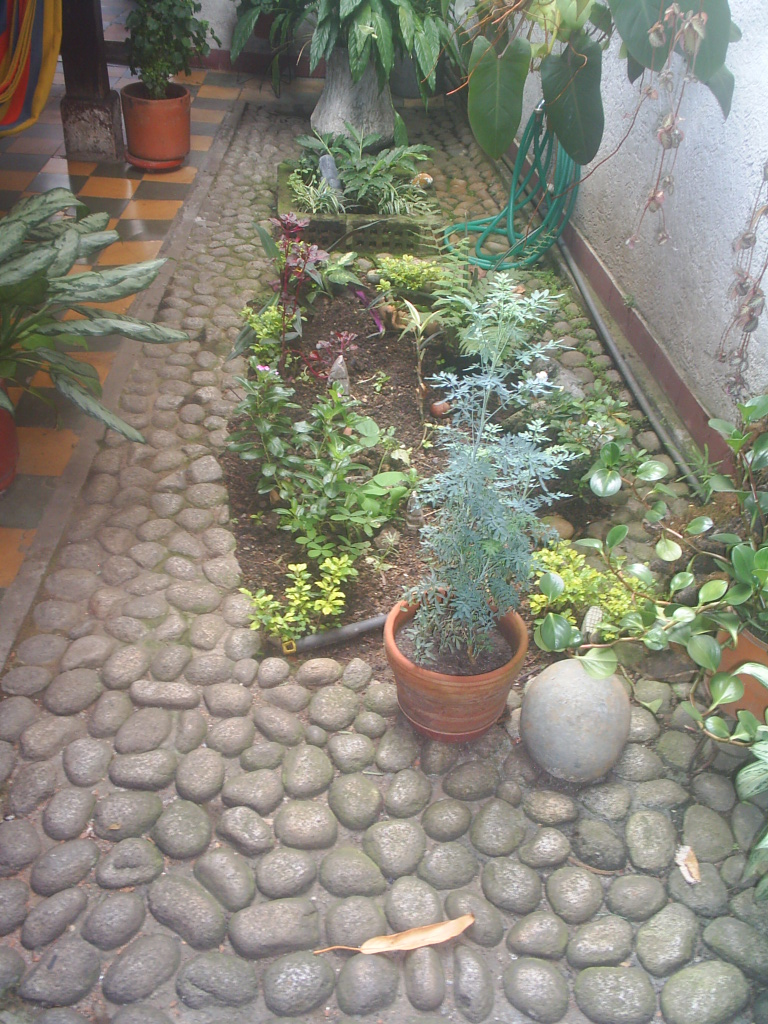 A traditional River-stone floor Garden